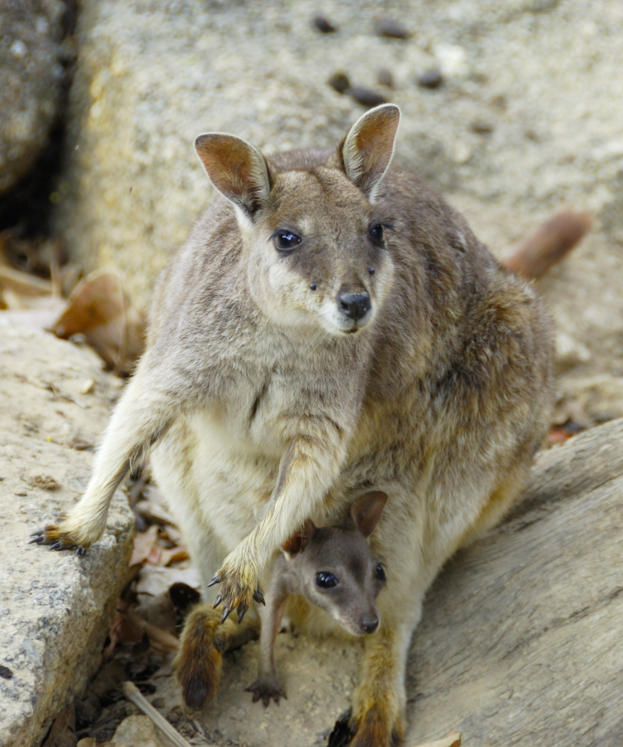 Mareeba Rock Wallaby (Petrogale mareeba) and Joey at Granite Gorge